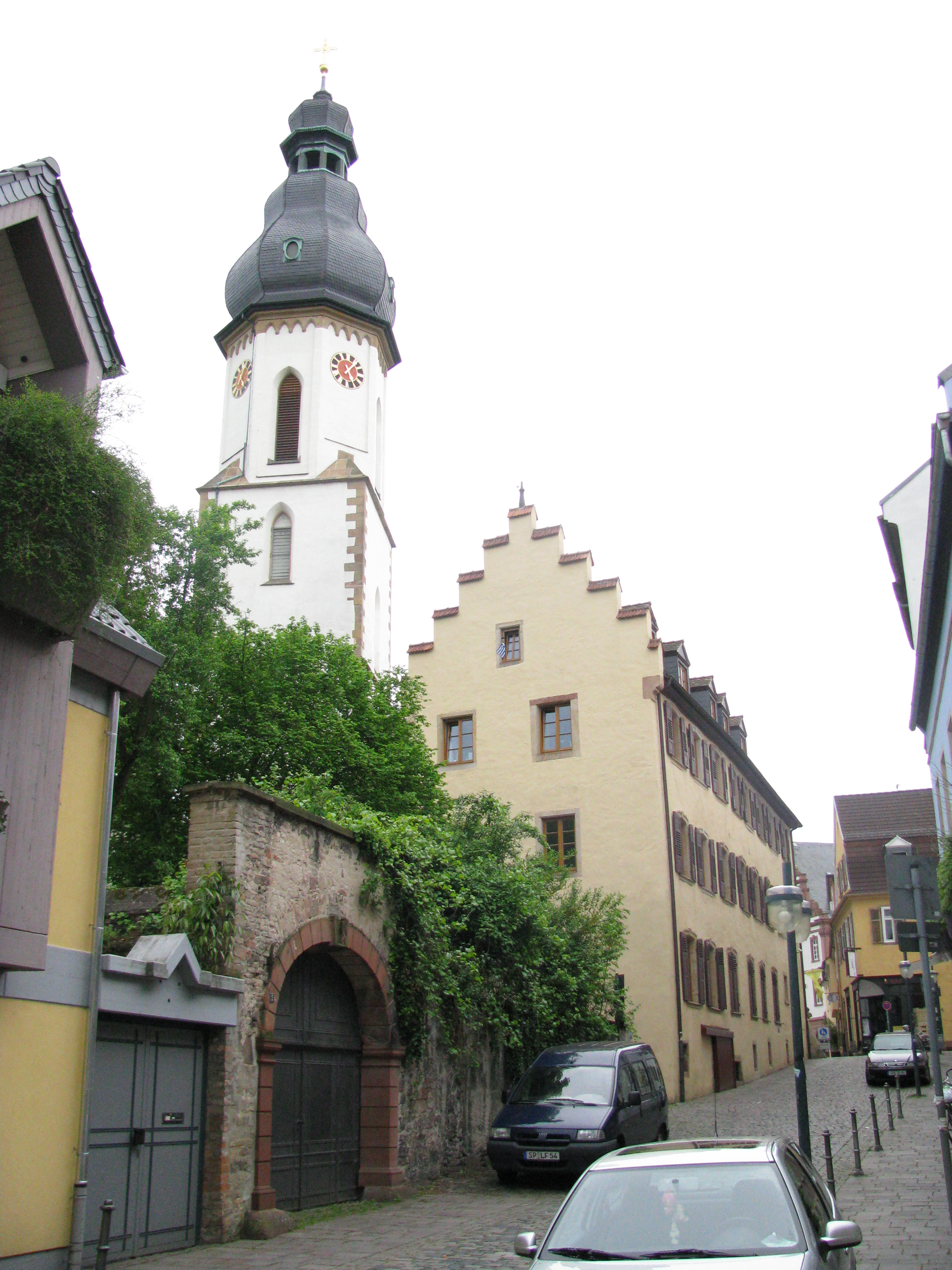 Speyer: View of medieval town hospital (St. Georgen-Gasse, founded 1259) with tower of St. George's church.